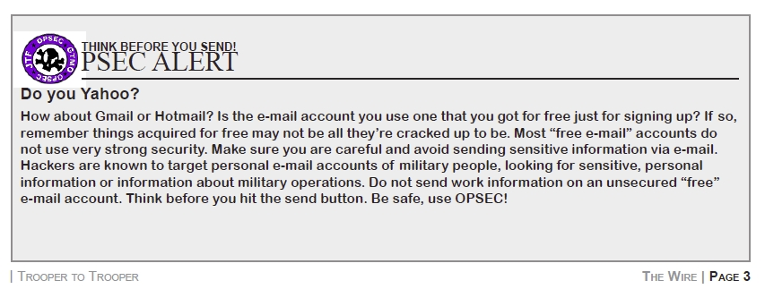 OPSEC ALERT PROTECT YOUR INFO! Do you Yahoo? How about Gmail or Hotmail? Is the e-mail account you use one that you got for free just for signing up? If so, remember things acquired for free may not be all they’re cracked up to be. Most “free e-mail” accounts do not use very strong security. Make sure you are careful and avoid sending sensitive information via e-mail. Hackers are known to target personal e-mail accounts of military people, looking for sensitive, personal information or information about military operations. Do not send work information on an unsecured “free” e-mail account. Think before you hit the send button. Be safe, use OPSEC!